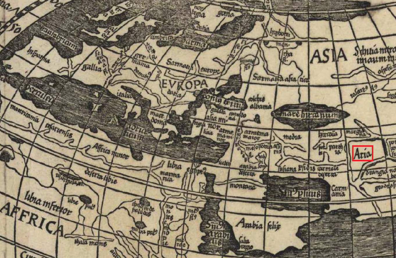 The inclusion of Aria in Waldseemüller map, 1507.